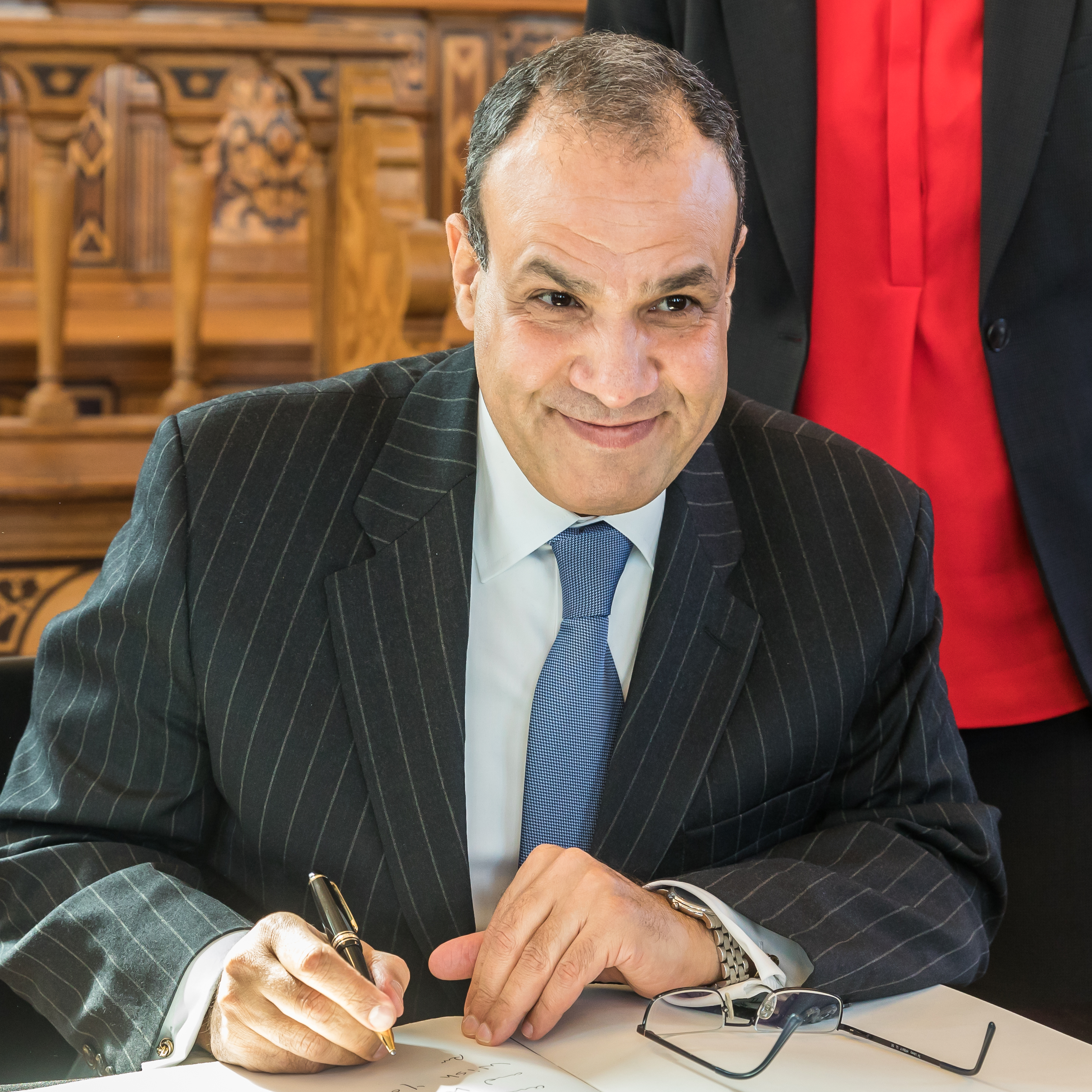 Visit of Dr. Badr Abdelatty, Ambassador of the Arab Republic of Egypt in Germany, in Cologne City Hall. He was received by the Mayor of Cologne Henriette Reker in the Senate Hall. Signing the guest book of the city of Cologne